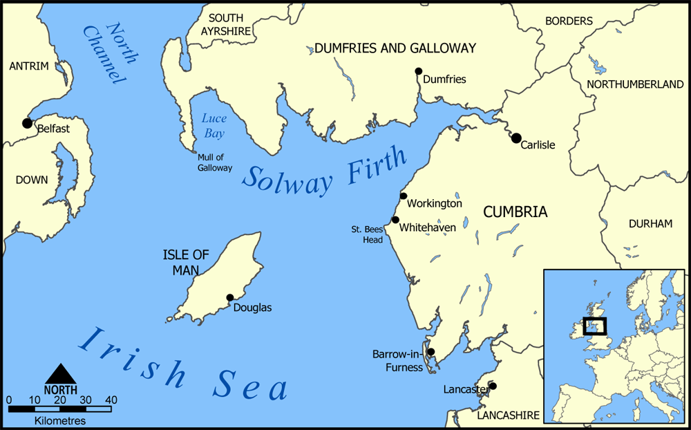 A map showing the location of Solway Firth between England and Scotland in the United Kingdom. Created by NormanEinstein, August 11, 2005.